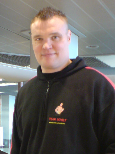 Semmy Schilt, Amsterdam Schiphol Airport, the Netherlands, Jan 2008